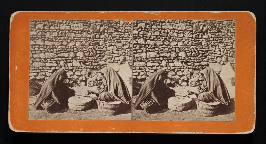 Two covered women